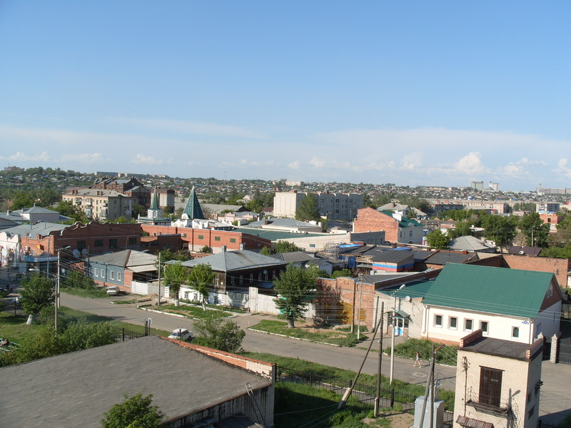 Type in Troitsk, with "Ferris Wheel"